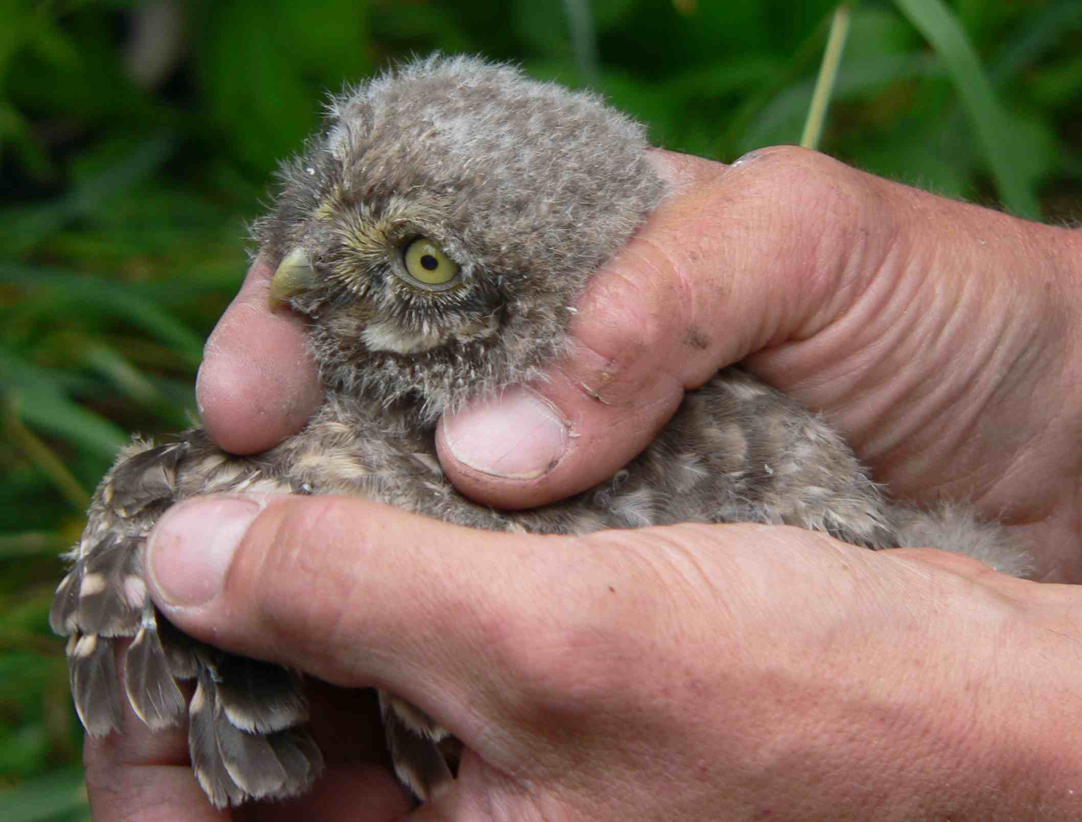 Little owl. Taken at Berger Hang, Bergen-Enkheim, Frankfurt am Main, Germany